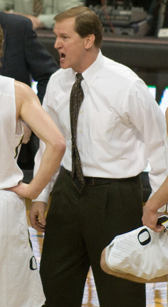 Dana Altman, head coach of the Oregon Ducks men's basketball team